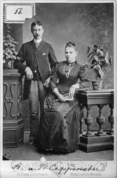 784140 01.11.1972 Алексей Иванович Софронов, слуга композитора Петра Ильича Чайковского со своей второй женой Екатериной. Из фондов Дома-музея П.И.Чайковского.